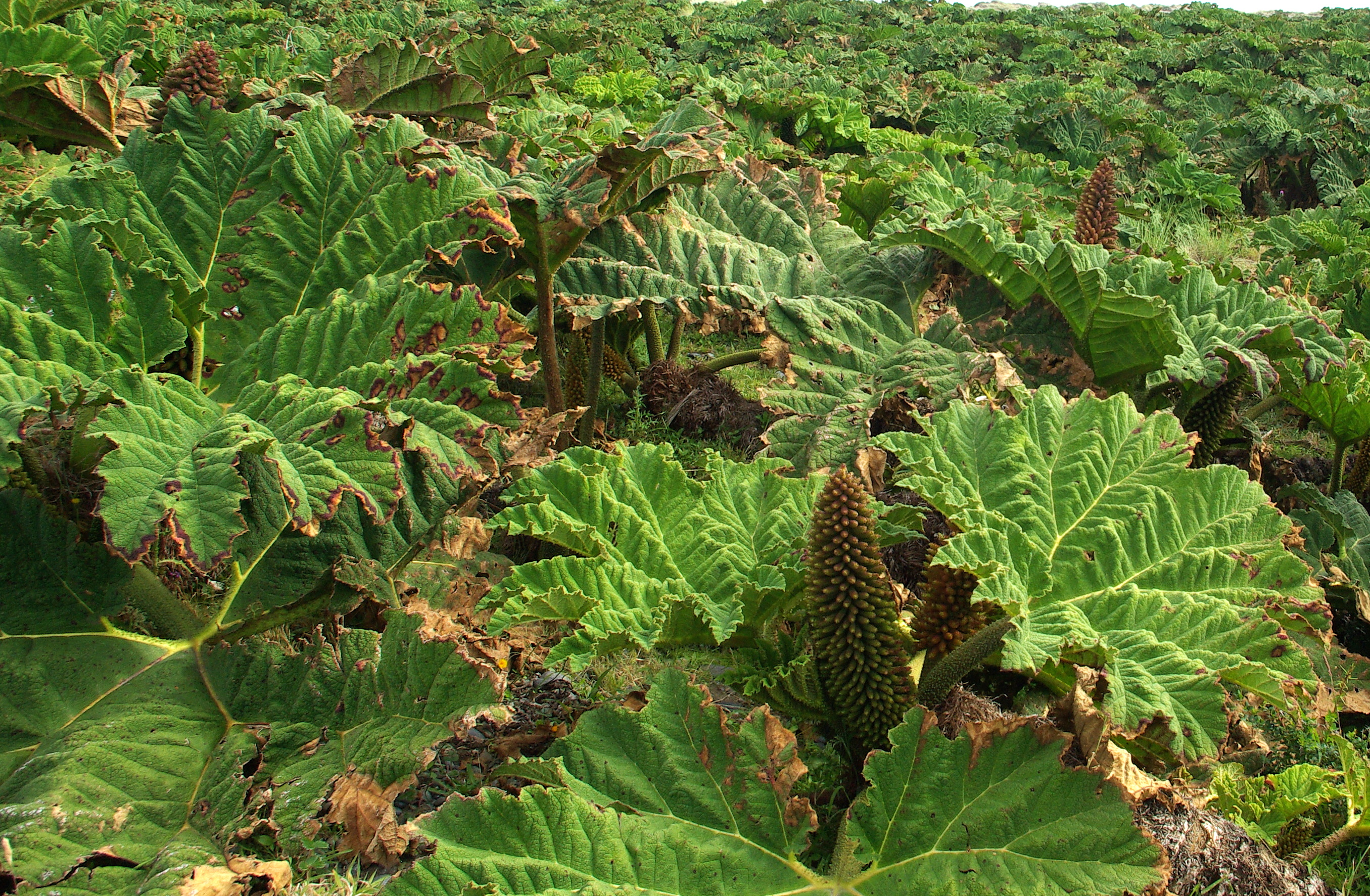 Gunnera Tinctoria (Chilean rhubarb), growing on the coast of Chiloé, in Chiloé National Park.